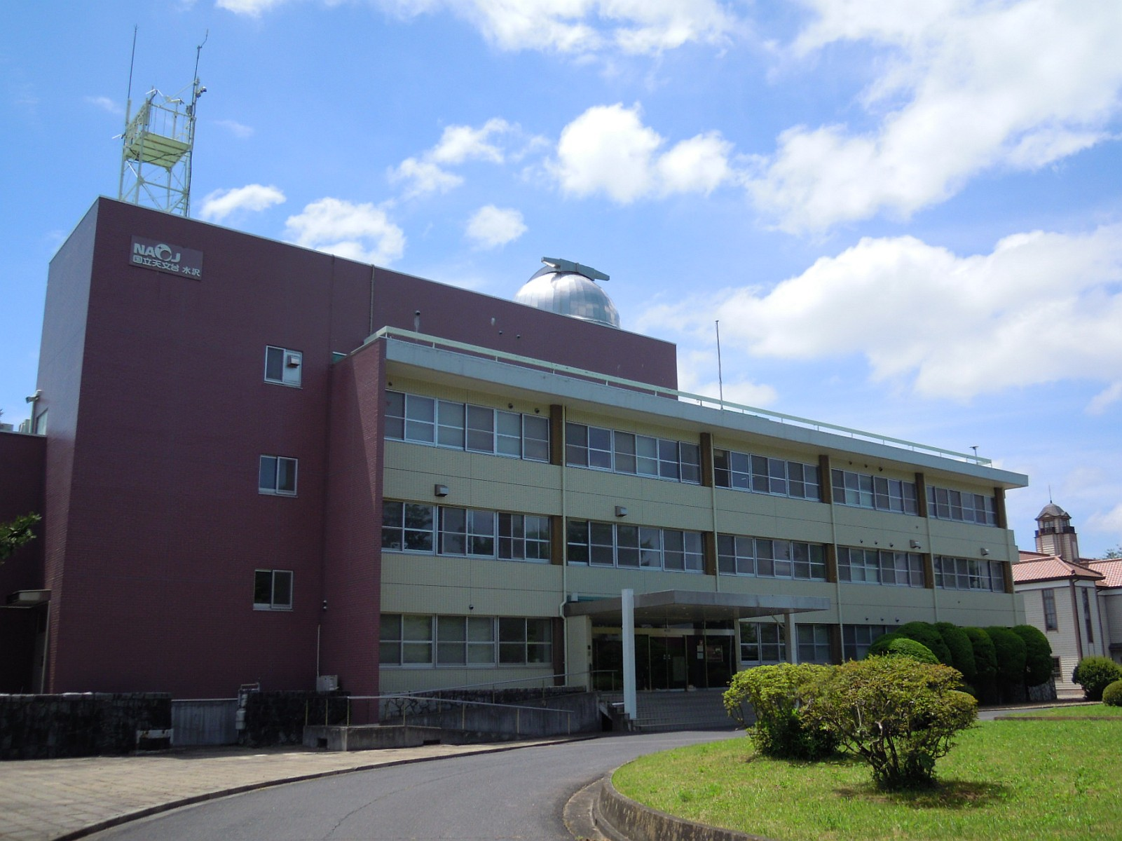 The main building of the NAOJ Mizusawa campus in Oshu City, Iwate prefecture, Japan.